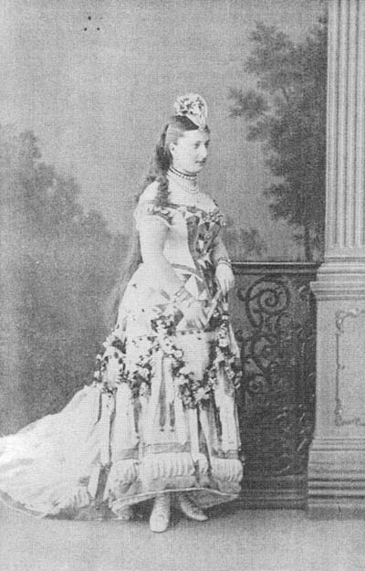 Catherine Dolgorukaya